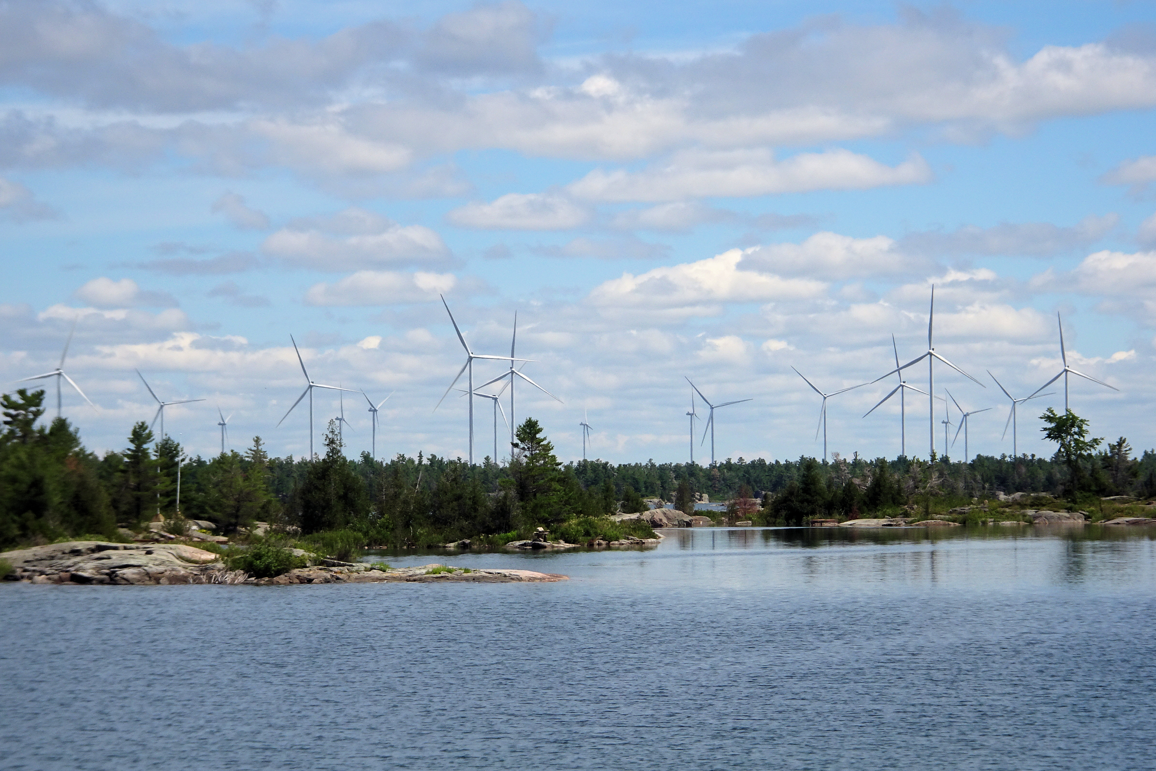 Henvey Inlet Wind project at Henvey Inlet First Nation Reserve, Ontario, Canada